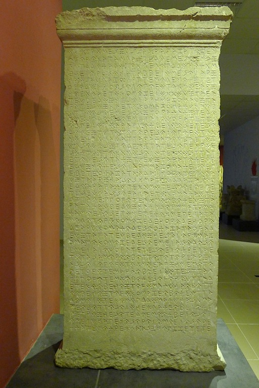 Letoon Trilingual, Lycian Side